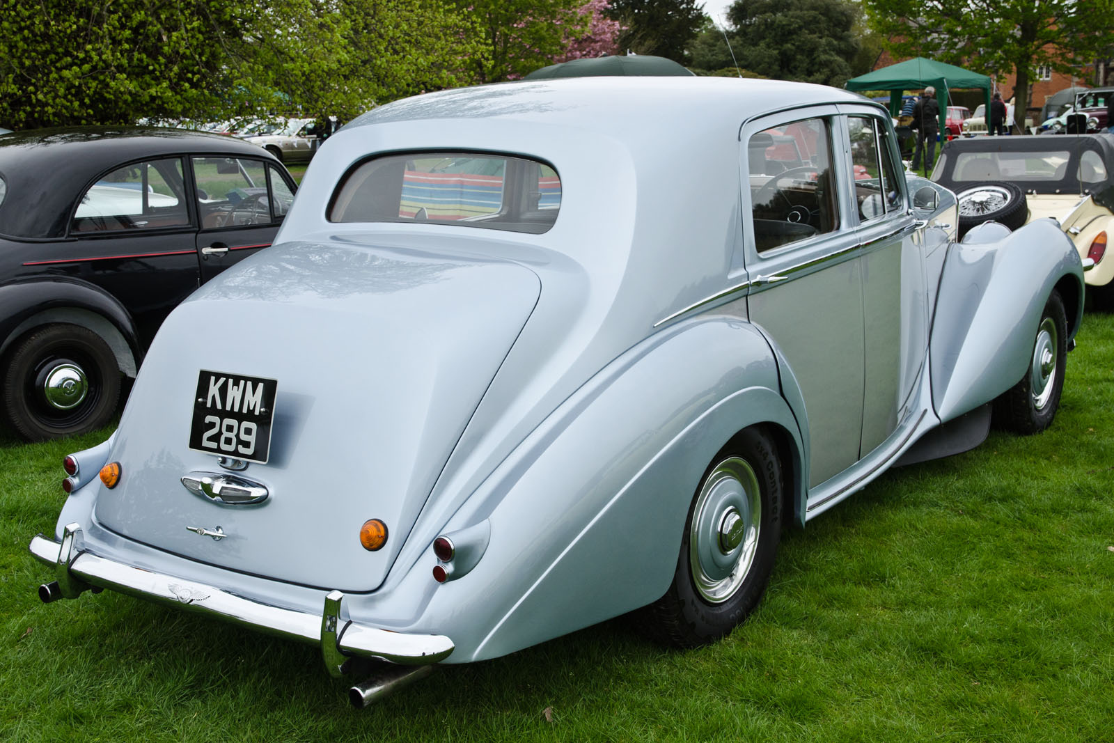 1955 Bentley R-Type standard steel saloon Vale Royal Classic Car Show at Arley Hall 12/05/2013